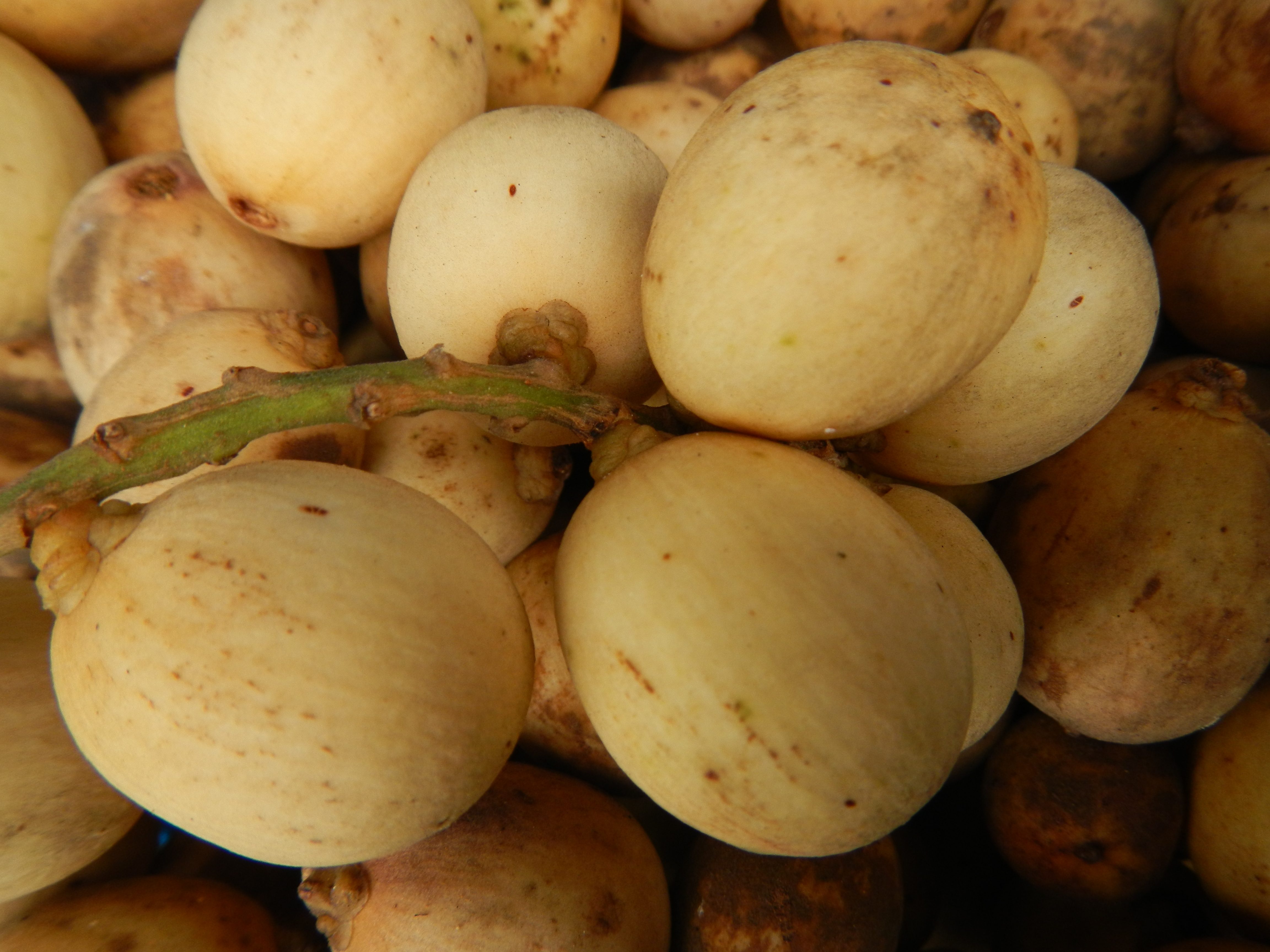 UploadWizard photos -- (General description, 3-dimension angle by angle photography of this town, church & landmarks) --Centro, downtown, town centre of Dupax del Norte, Nueva Vizcaya[1] - Scenery and landmarks, Dupax del Norte Central School in front of the Church -- the -Saint Anne Parish Church of Dupax del Norte, Nueva Vizcaya[2] 3706 Malasin, [3] Coordinates: 16°18'23"N 121°6'22"E - the Lamo Bridge, Cagayan Valley River, & Paete, Laguna[4] (s a fourth class municipality in the province of Laguna, [5])Philippines; the latest census, a population of 23,523- Wood_carving [6] industry) Entrance Monument, Welcome Sign and Statue at Barangay 4 - Quinale; proclaimed "the Carving Capital of the Philippines" on March 15, 2005 by Philippine President Arroyo; politically subdivided into 9 barangays[7] situated in Laguna, Region 4, Philippines, its geographical coordinates are 14° 21' 46" North, 121° 29' 1" East , Fruitstands of Rambutan[8], Santol[9], Sandoricum koetjape, Pomelo or suha[10]Citrus maxima, Lansium domesticum[11], Durian [12], Marang [13] (Artocarpus odoratissimus).